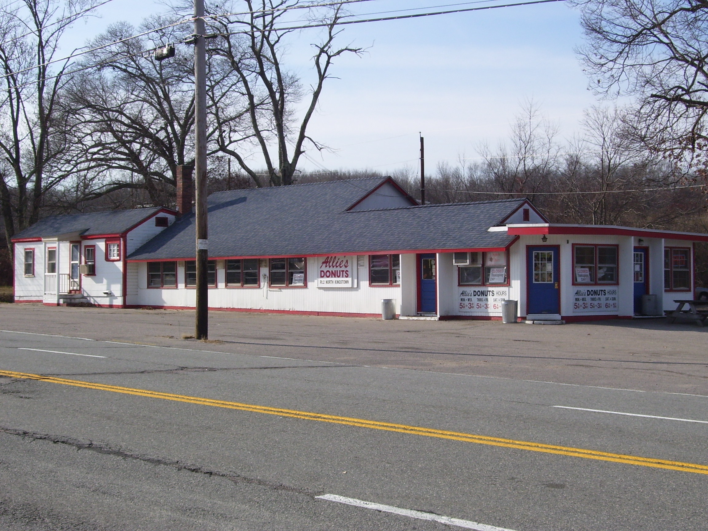 This is my 2008 photo of Allie's Donuts in North Kingstown, Rhode Island.